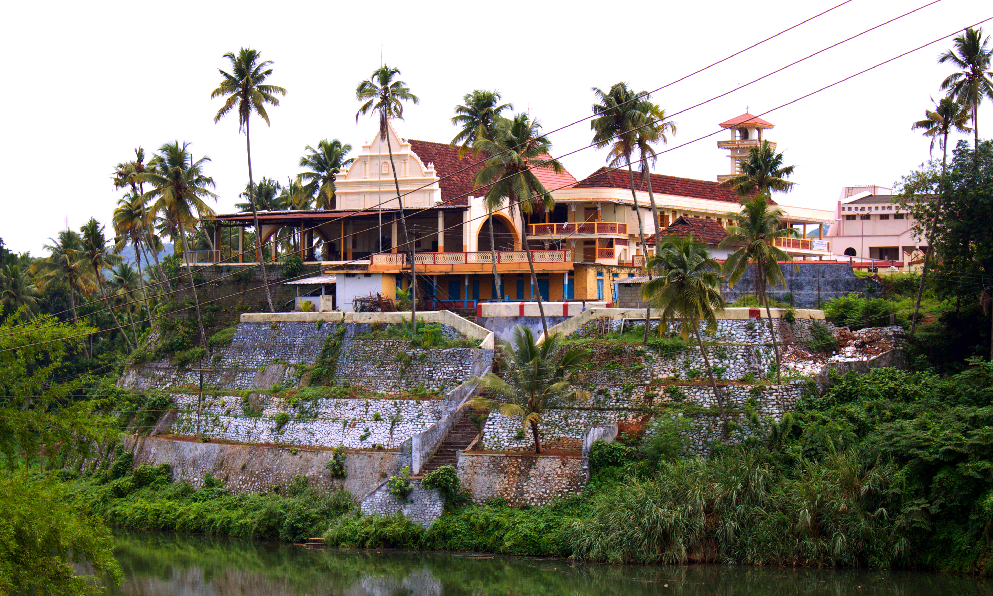 Piravom St Marys Orthodox Cathedral